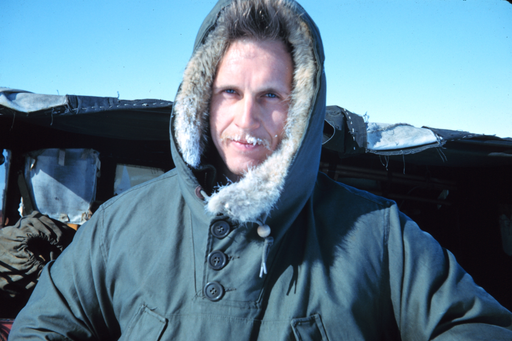 Harley D. Nygren with a United States Coast and Geodetic Survey field party on the Alaska North Slope